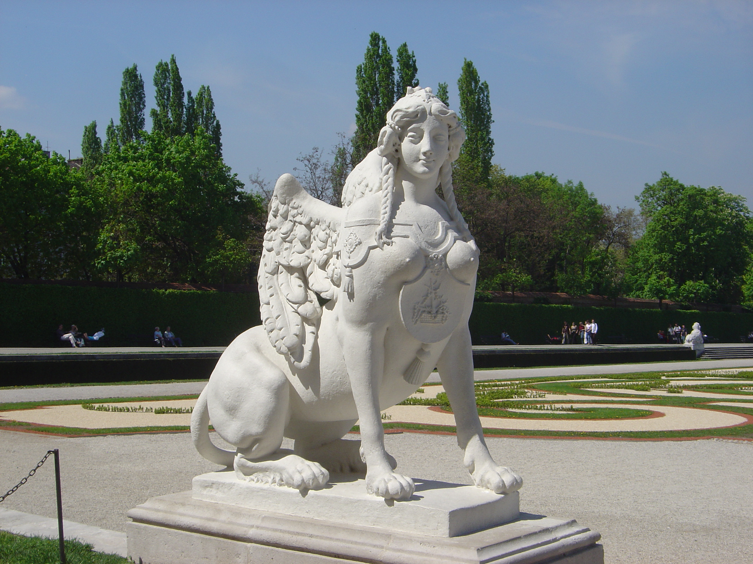 A sphinx at the entrance of the Upper Belvedere, in Belvedere Palace, Vienna, Austria